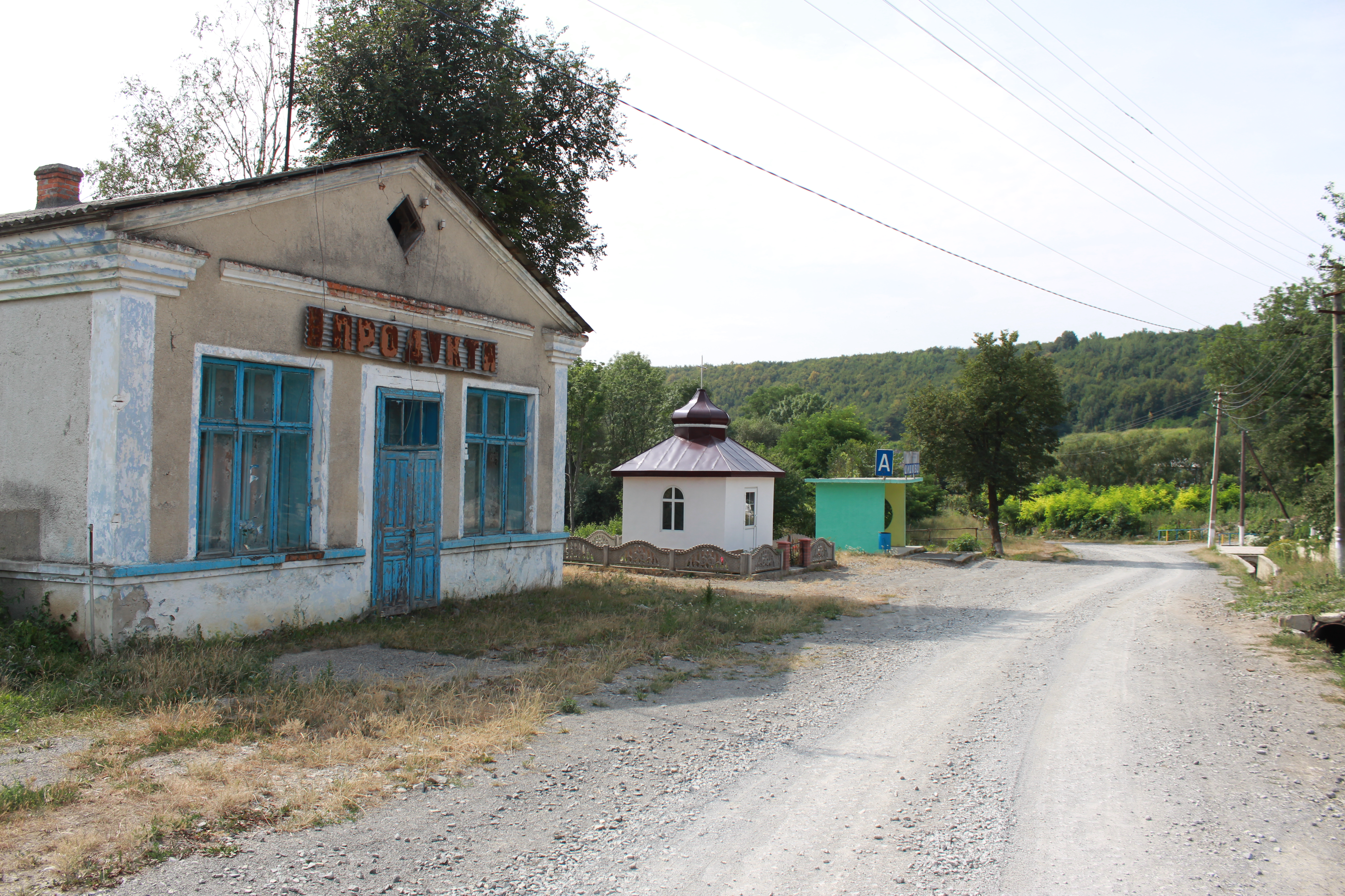 Центр села